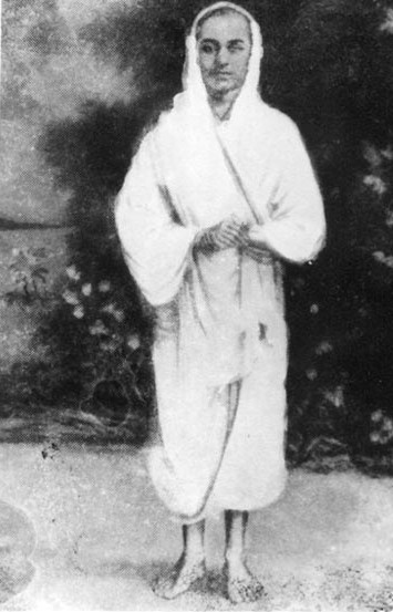 Arutprakasa Vallalar Chidambaram Ramalinga Swamigal